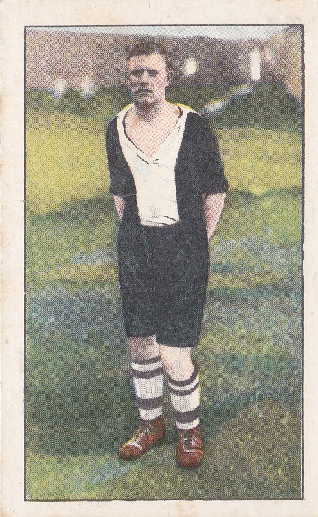 Dutch football player Kees van der Zalm